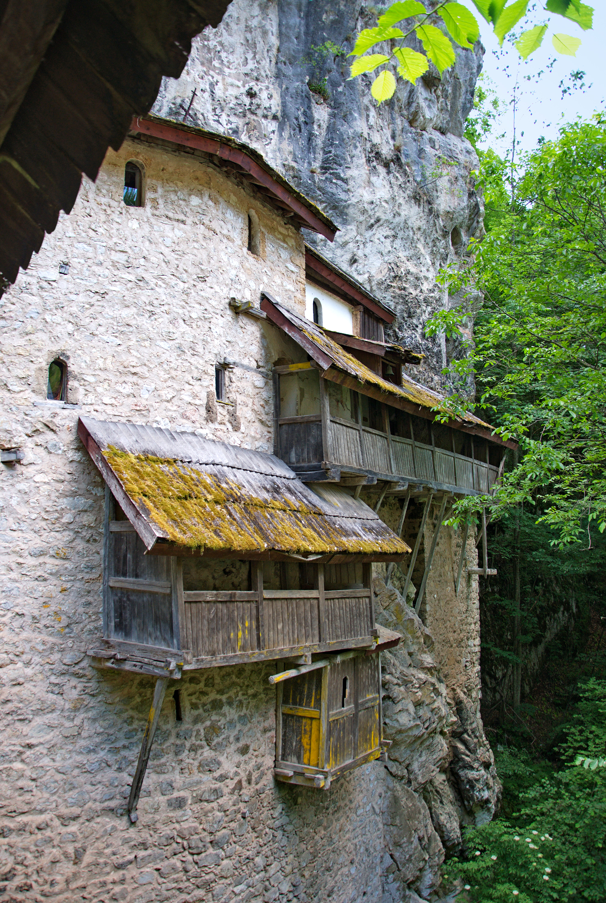 Monastery Black River (Black River, fishing, Tutin, Serbia), built into the rock.